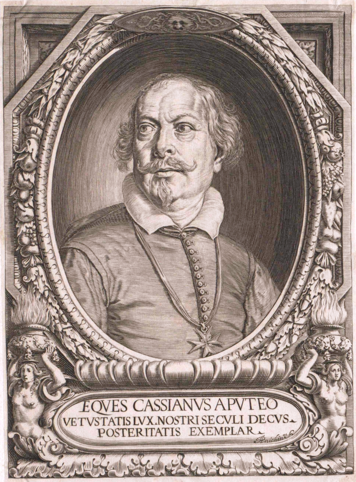 Cassiano dal Pozzo, (1588 – 22 October 1657)Cassianus Aputeo. Engraved portrait. 17th century